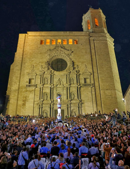 Pilar de la Catedral: act in which Marrecs de Salt walk a four storey human tower upstairs to the gate of Girona's cathedral